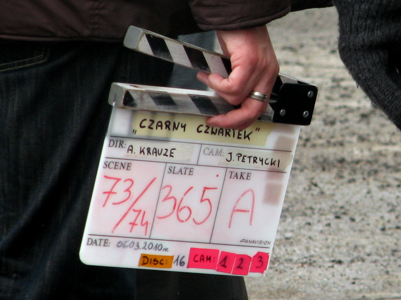 Clapperboard of "Black Thursday" This is film about Polish 1970 protests.